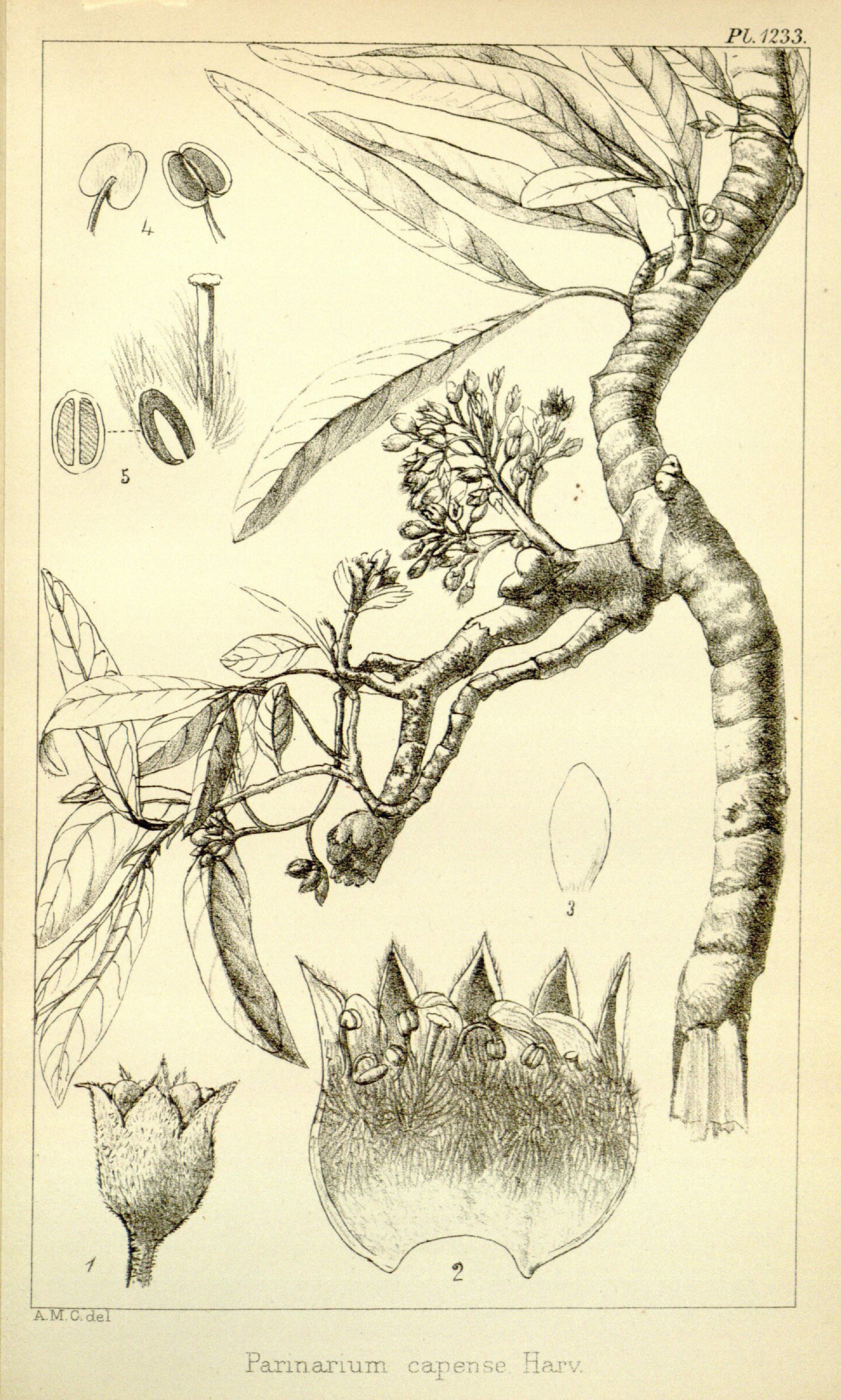 Hooker, W.J., Hooker, J.D., Icones Plantarum [Hooker’s] Icones plantarum, vol. 13: t. 1233 (1879) [A.M.C.]